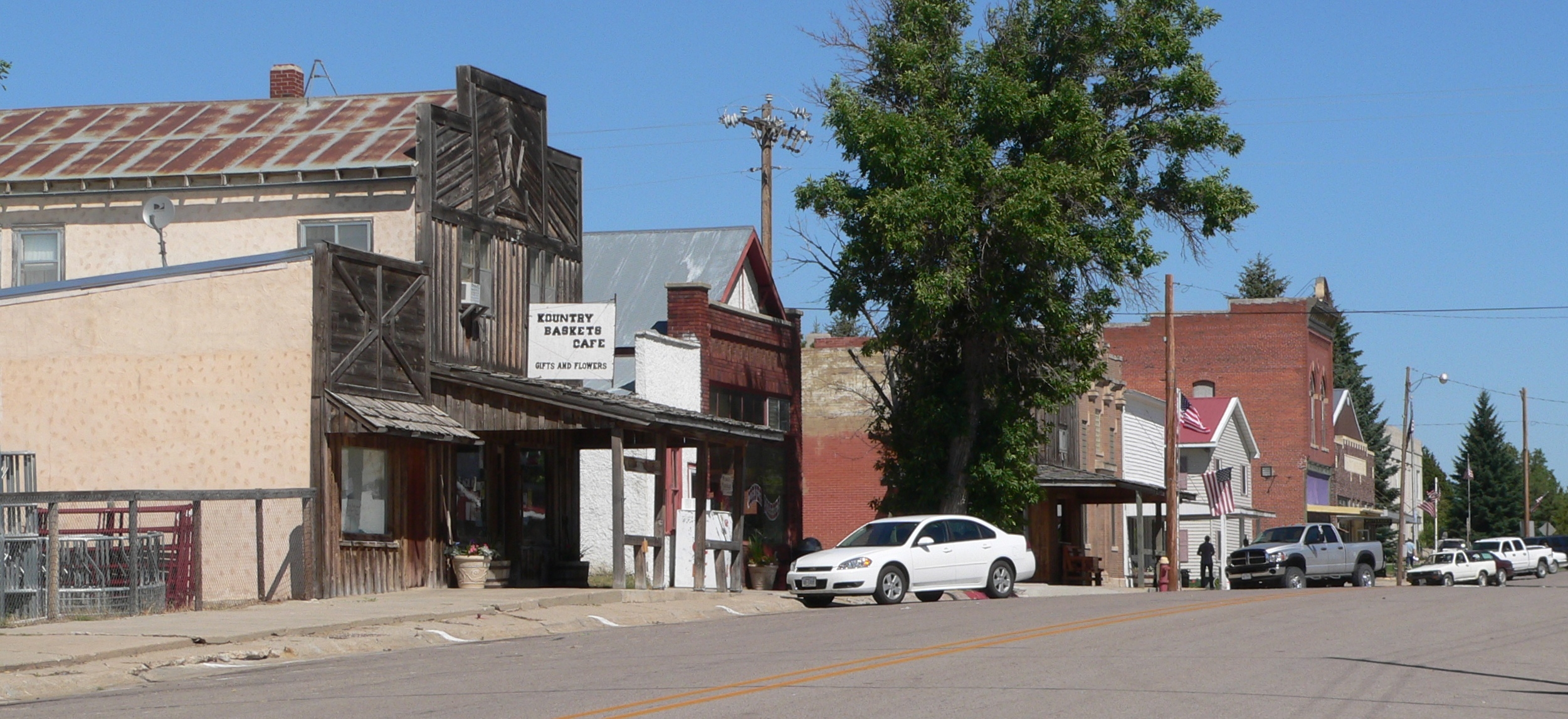 Harrison, Nebraska: Main Street (Nebraska Highway 29, looking northwest from about halfway between 1st and 2nd Street.